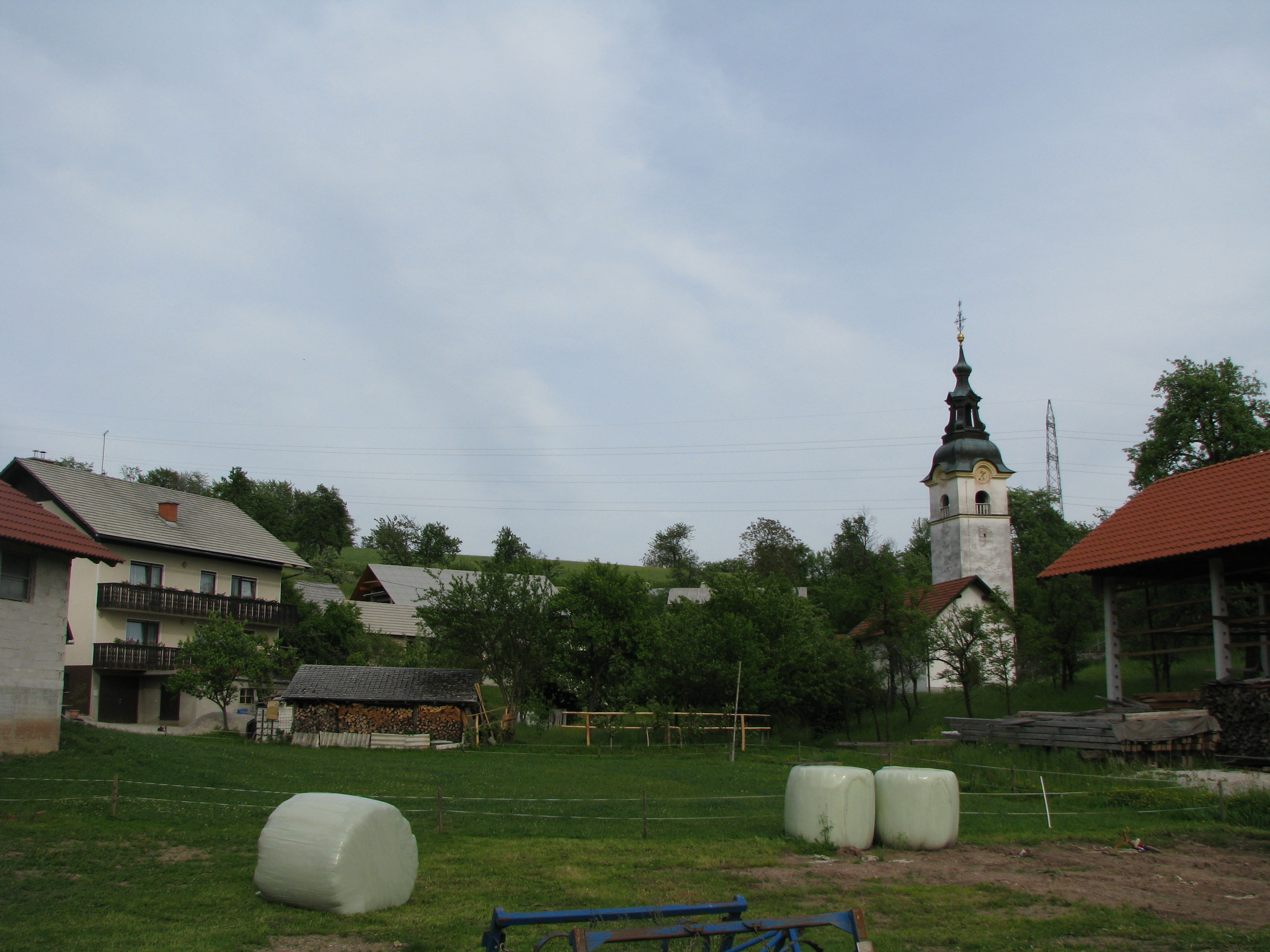 Village of Tirna with church of Saints Primus and Felician